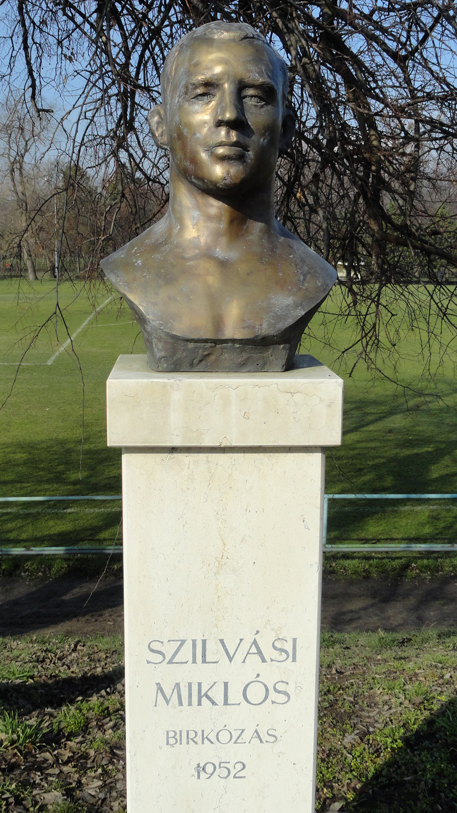 Miklós Szilvási, hungarian wrestler. 1952 Summer Olympics - Gold Medal Winner